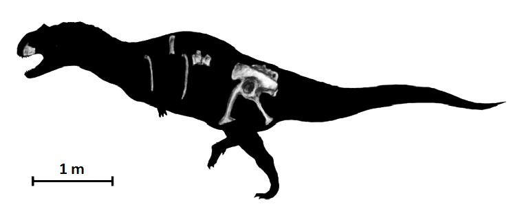 Kryptops palaios, an abelisaurid from the Early Cretaceous of Niger, known fossil elements, after Sereno and Brusatte, 2008, pencil drawing, digital coloring.